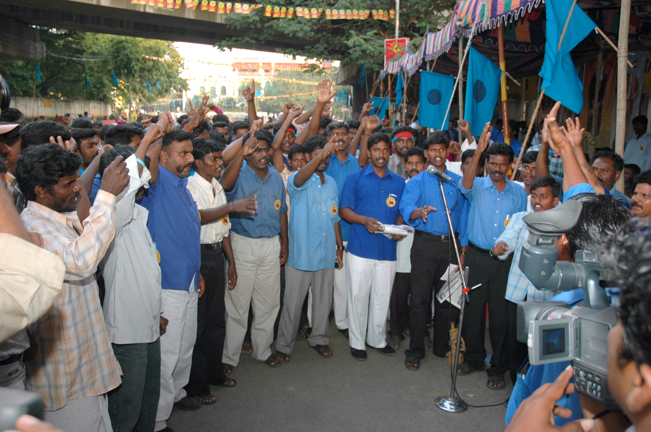 Picture taken during a demonstration to eradicate Manual Scavenging by Aathi Thamilar Peravai held in Chennai on 18th December 2005